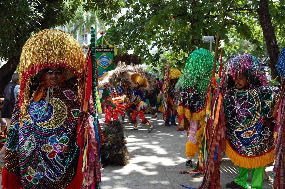 Maracatu Rural - Recife, Pernambuco, Brazil